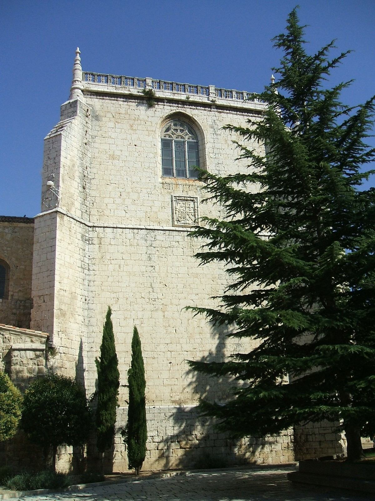 Ábside de la iglesia del Convento de San Pablo, Palencia, España